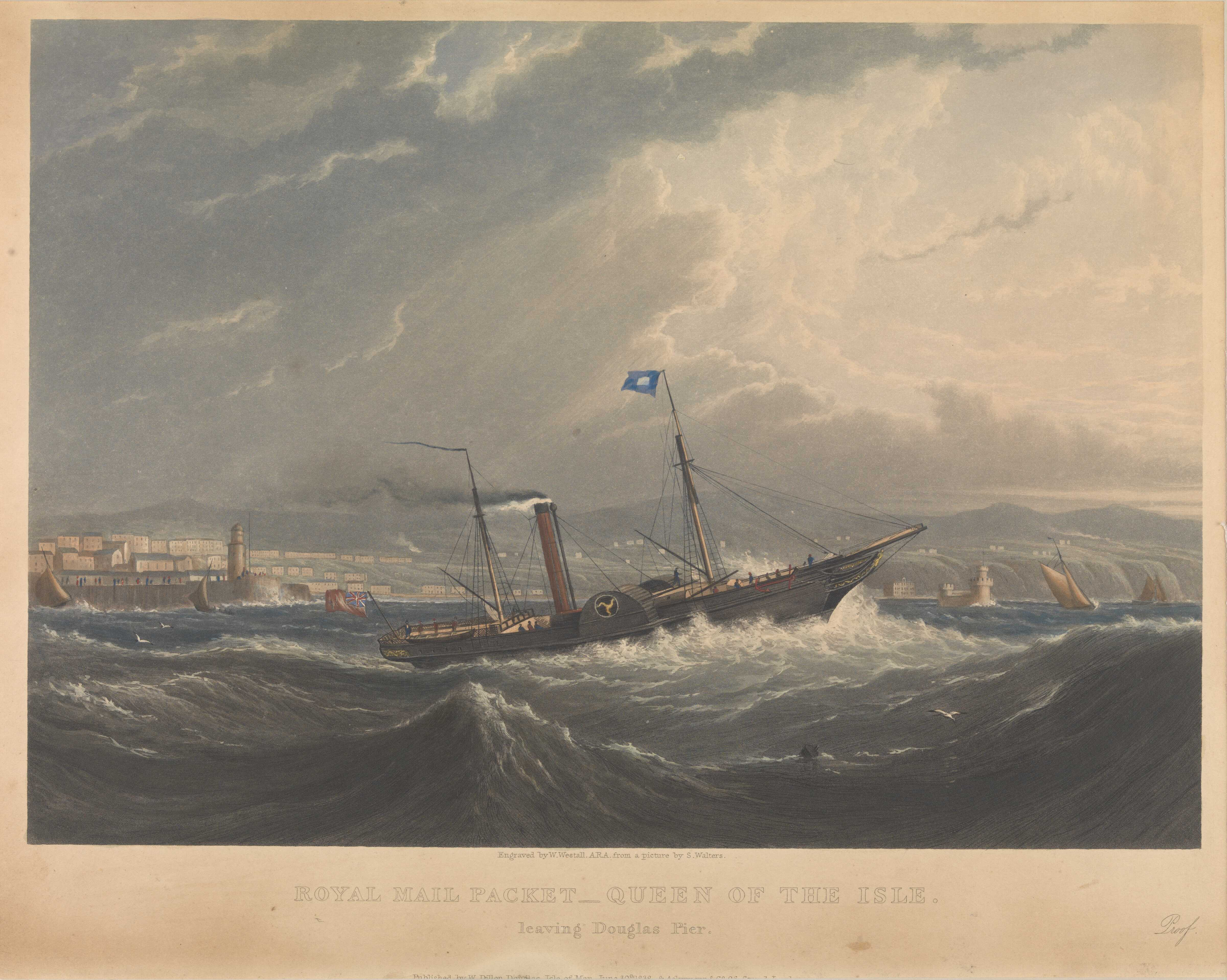 Royal Mail Packet - Queen of the Isle leaving Douglas PierHand-coloured.; Medium includes gum arabic. Royal Mail Packet - Queen of the Isle leaving Douglas Pier